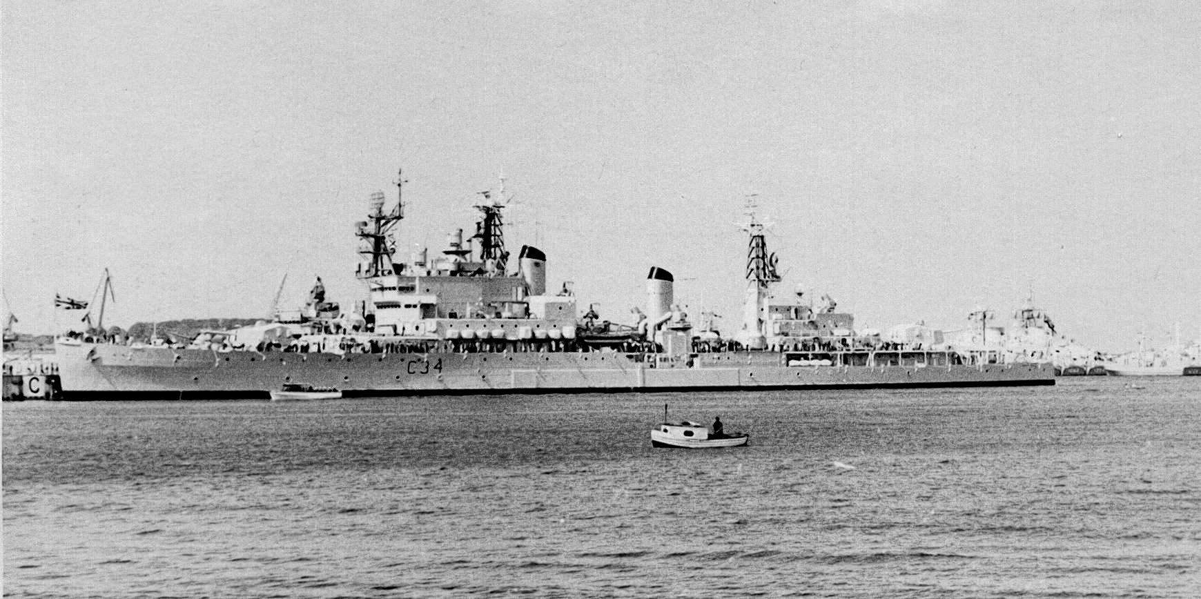 The Royal Navy light cruiser HMS Lion (C34) at Kiel, West Germany, in 1964.